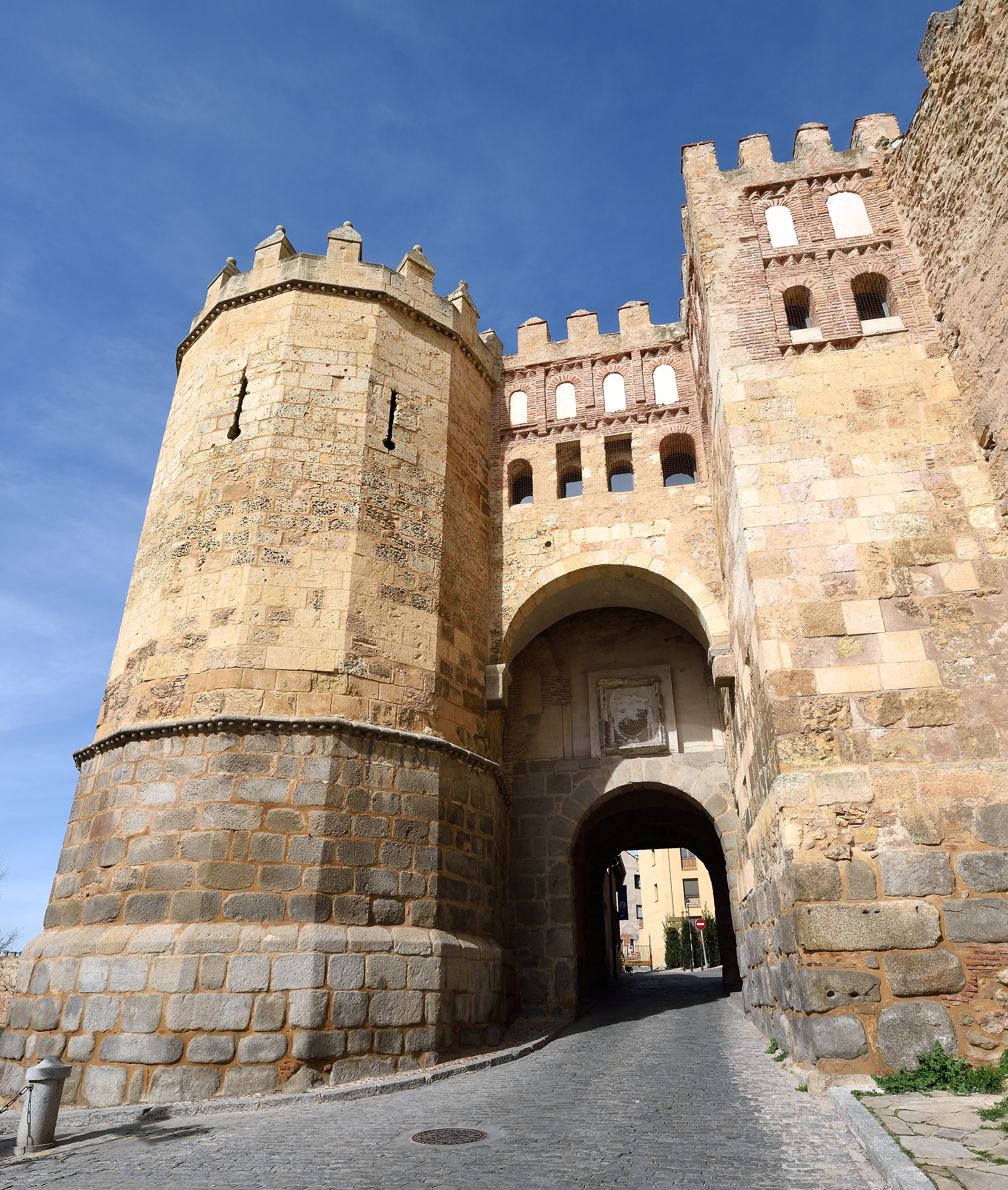 Puerta de San Andrés in Segovia Spain on February 15 2017